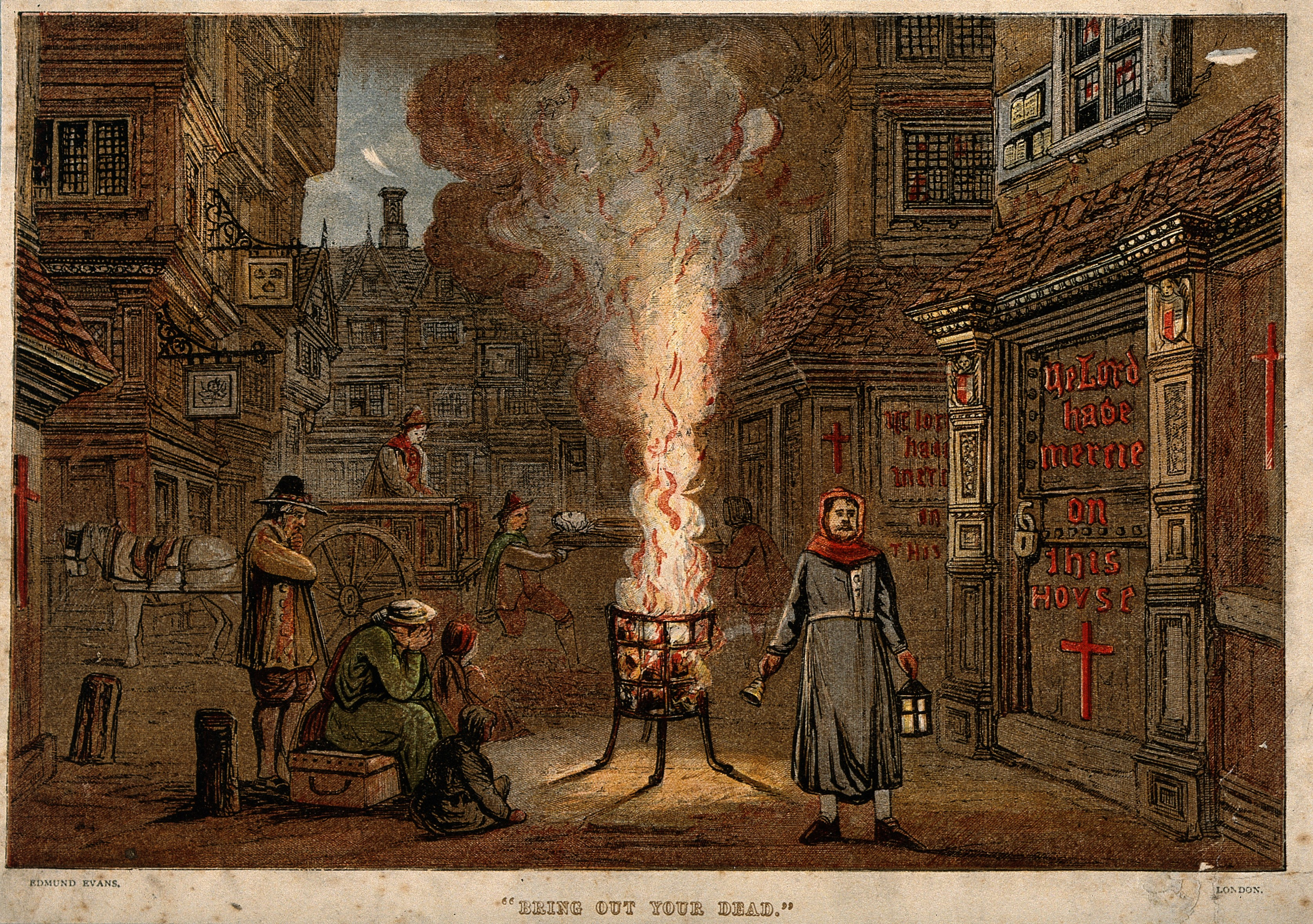 "Bring Out Your Dead" A street during the Great Plague in London, 1665, with a death cart and mourners. Iconographic Collections Keywords: Edmund Evans; Great Plague; Plague